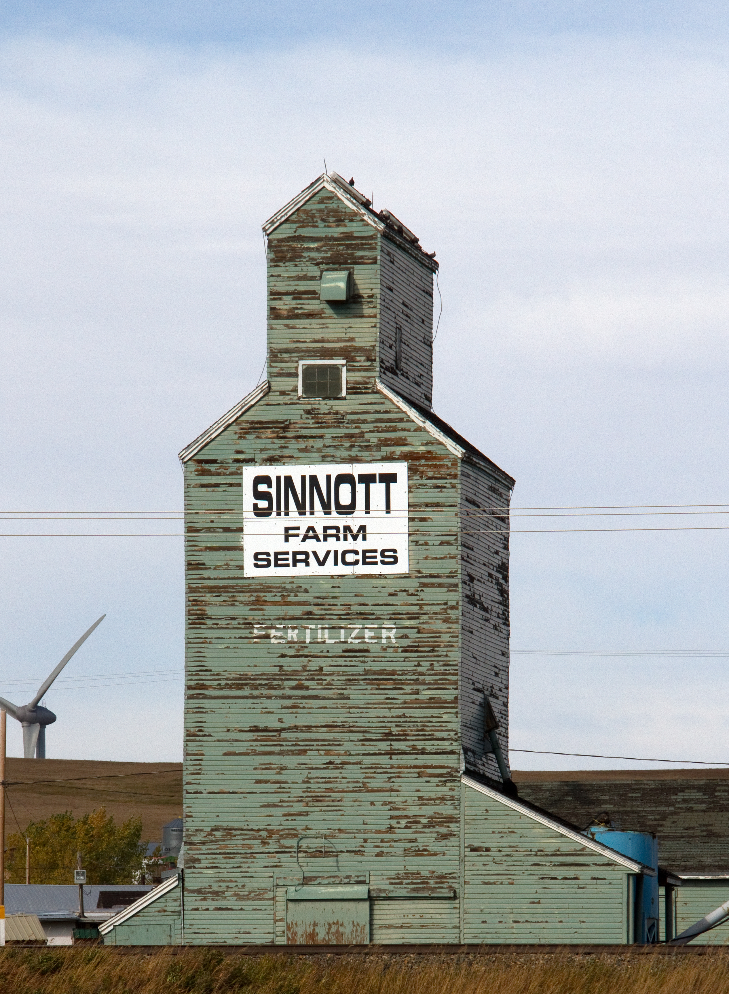 Grain Elevator 2